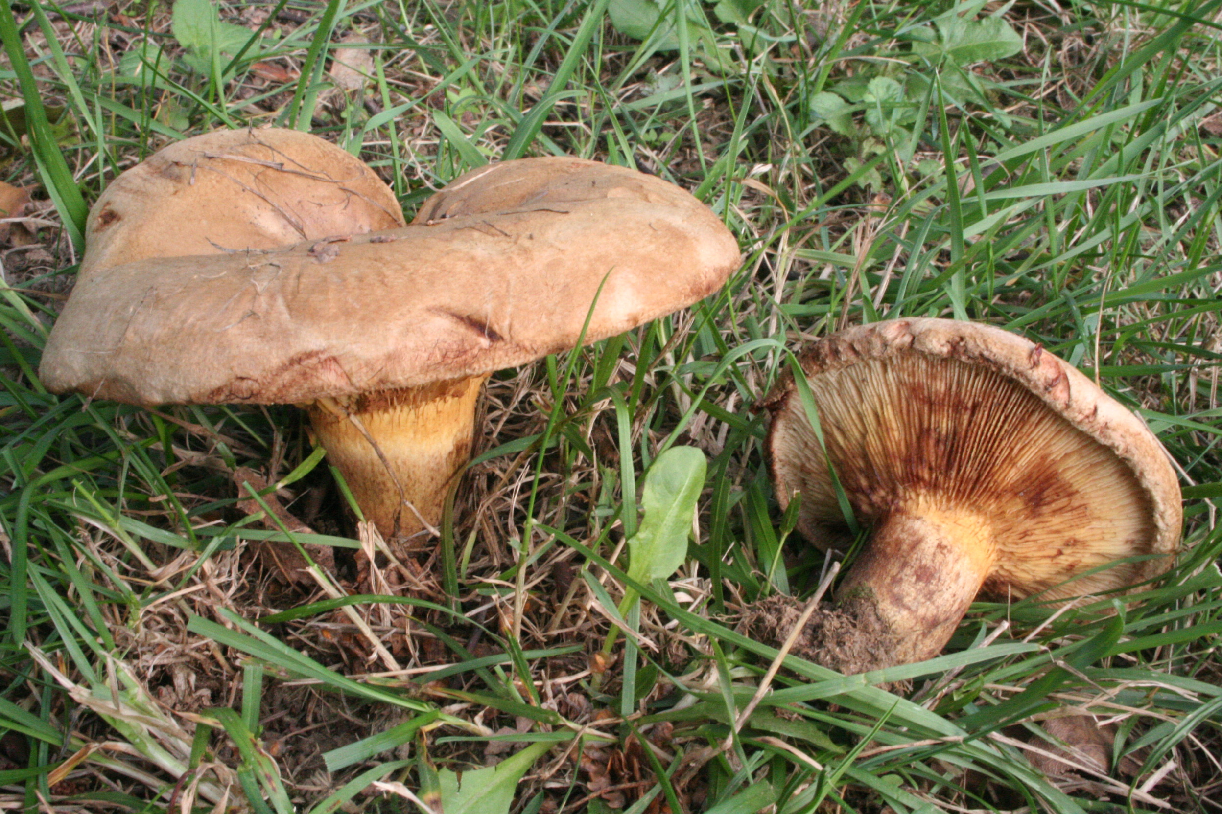 Paxillus involutus in a park near Paris, France.